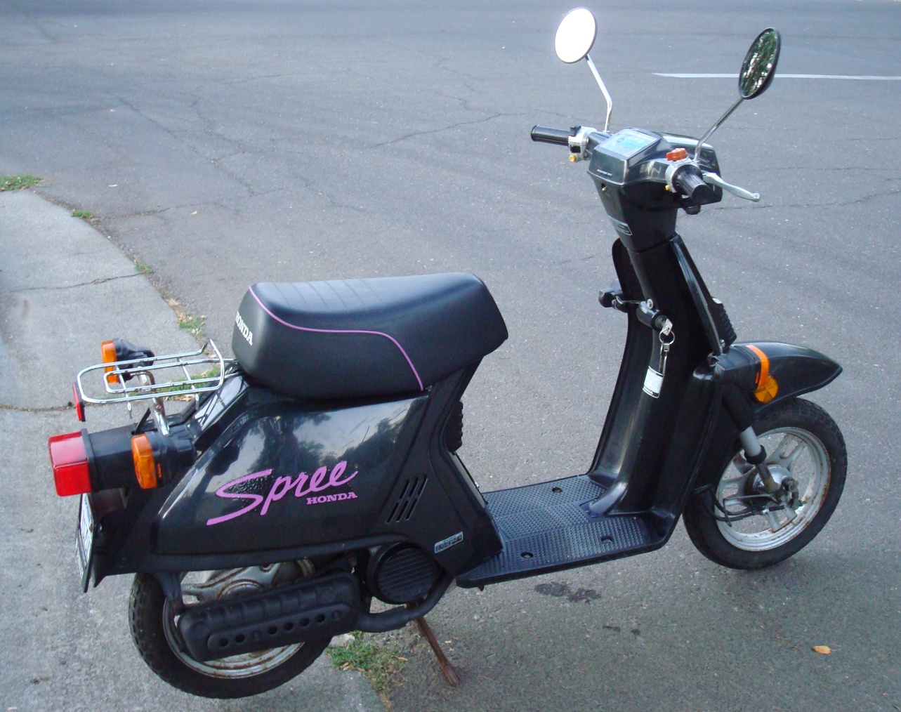 I own this Spree, picture was taken for me.